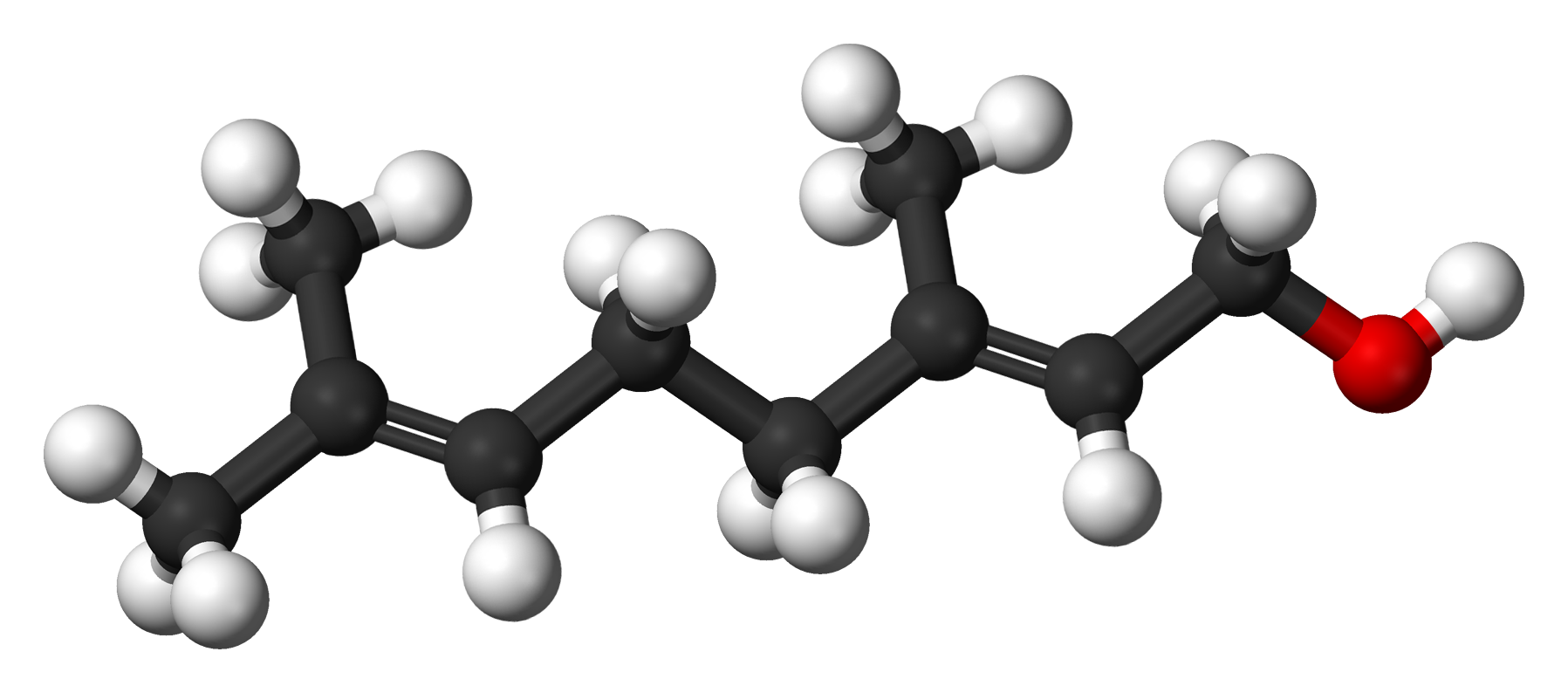 Ball-and-stick model of the geraniol molecule.